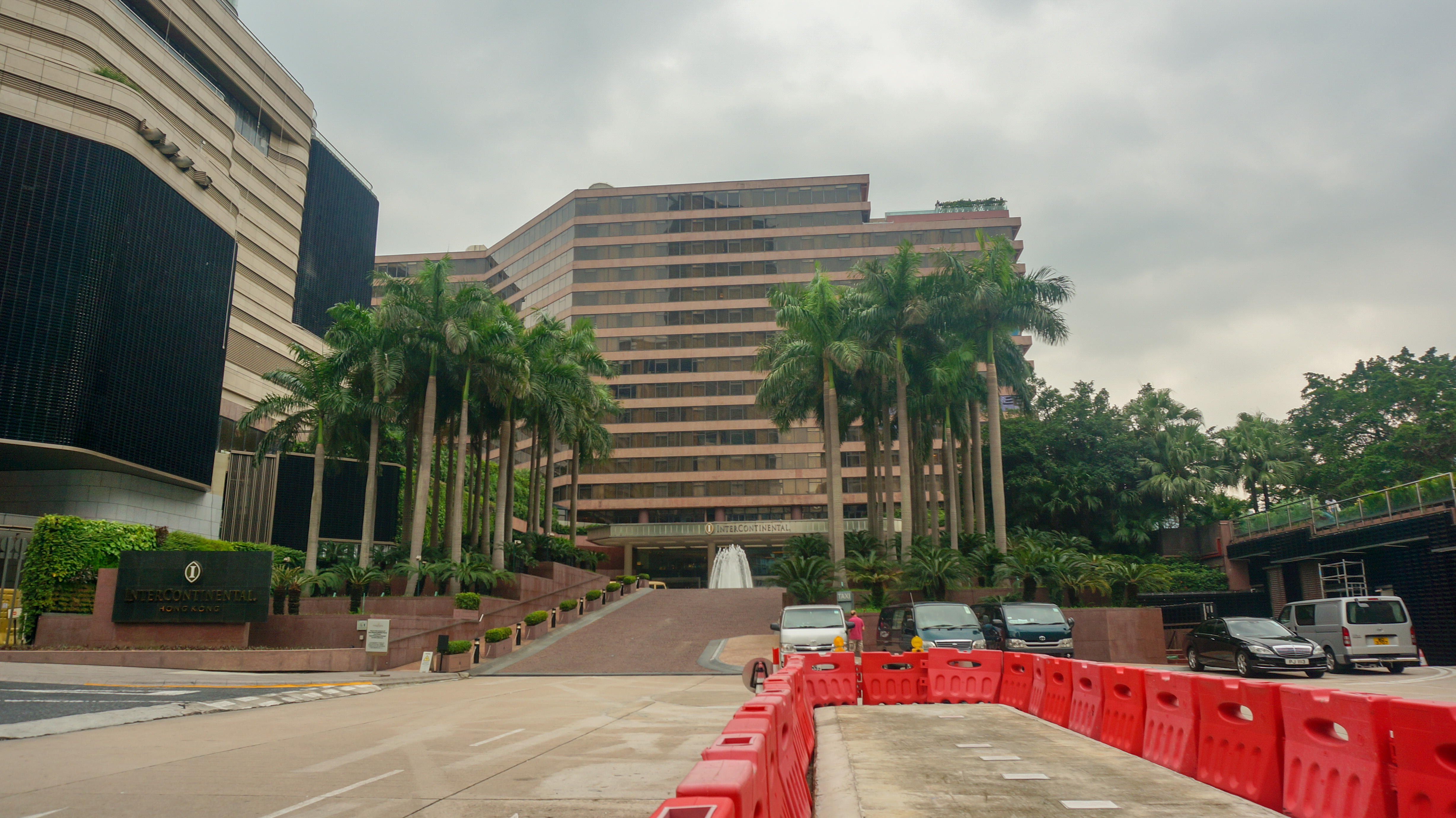 InterContinental Hong Kong Front Door